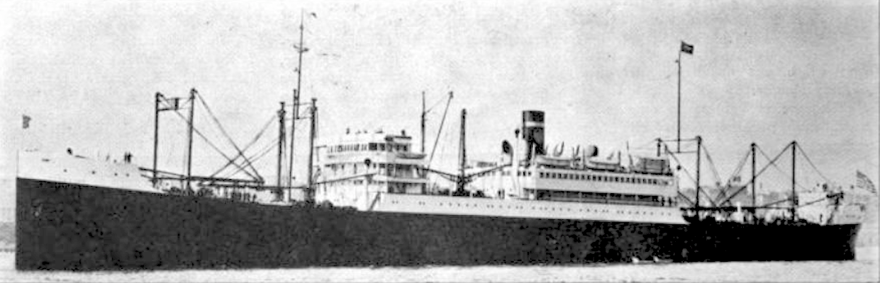 American passenger liner "Old North State" which is operating in the New York-London service in conjunction with the liner "Panhandle State"